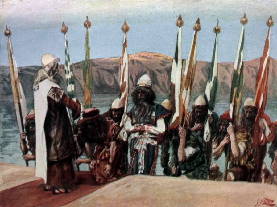 Moses Blesses Joshua Before the High Priest, as in Numbers 27:22, by James Tissot